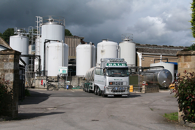 Beaminster: Danisco plant A former dairy site, Danisco produces Nisaplin, a natural antimicrobial, and functions 24 hours a day through the week. The plant is the town’s second largest employer